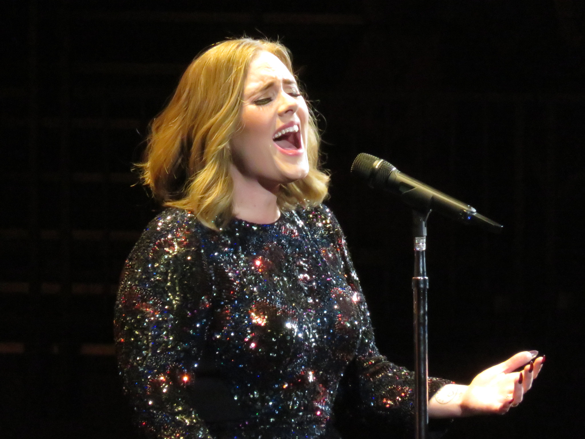 Adele at the Genting Arena, Birmingham as part of her Live 2016 tour